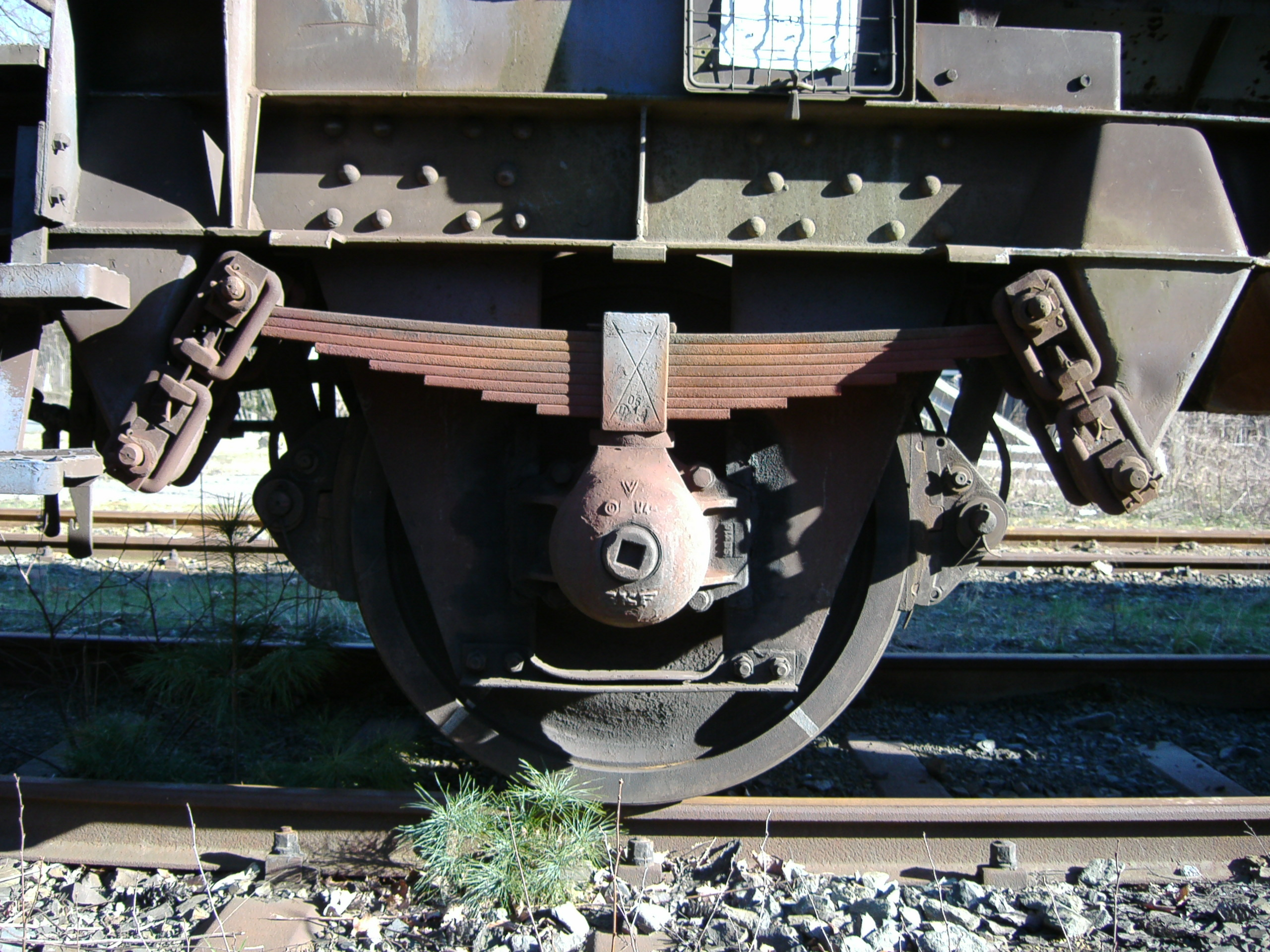 Self discharging hopper wagon of the Class Fccs with the ITL Railway Co.